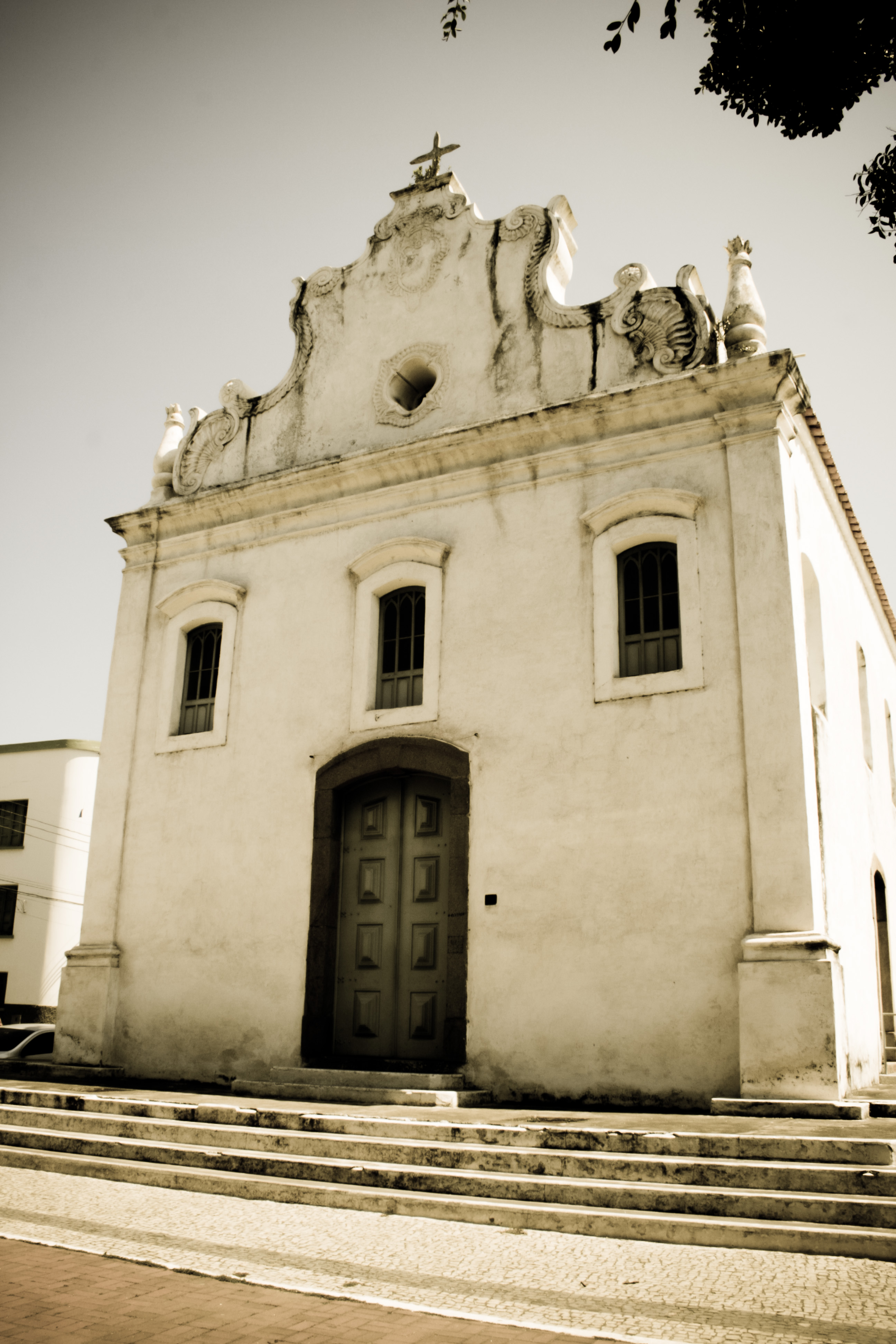 Our Lady of the Rosary Church in Vila Velha, Espírito Santo, Brazil.